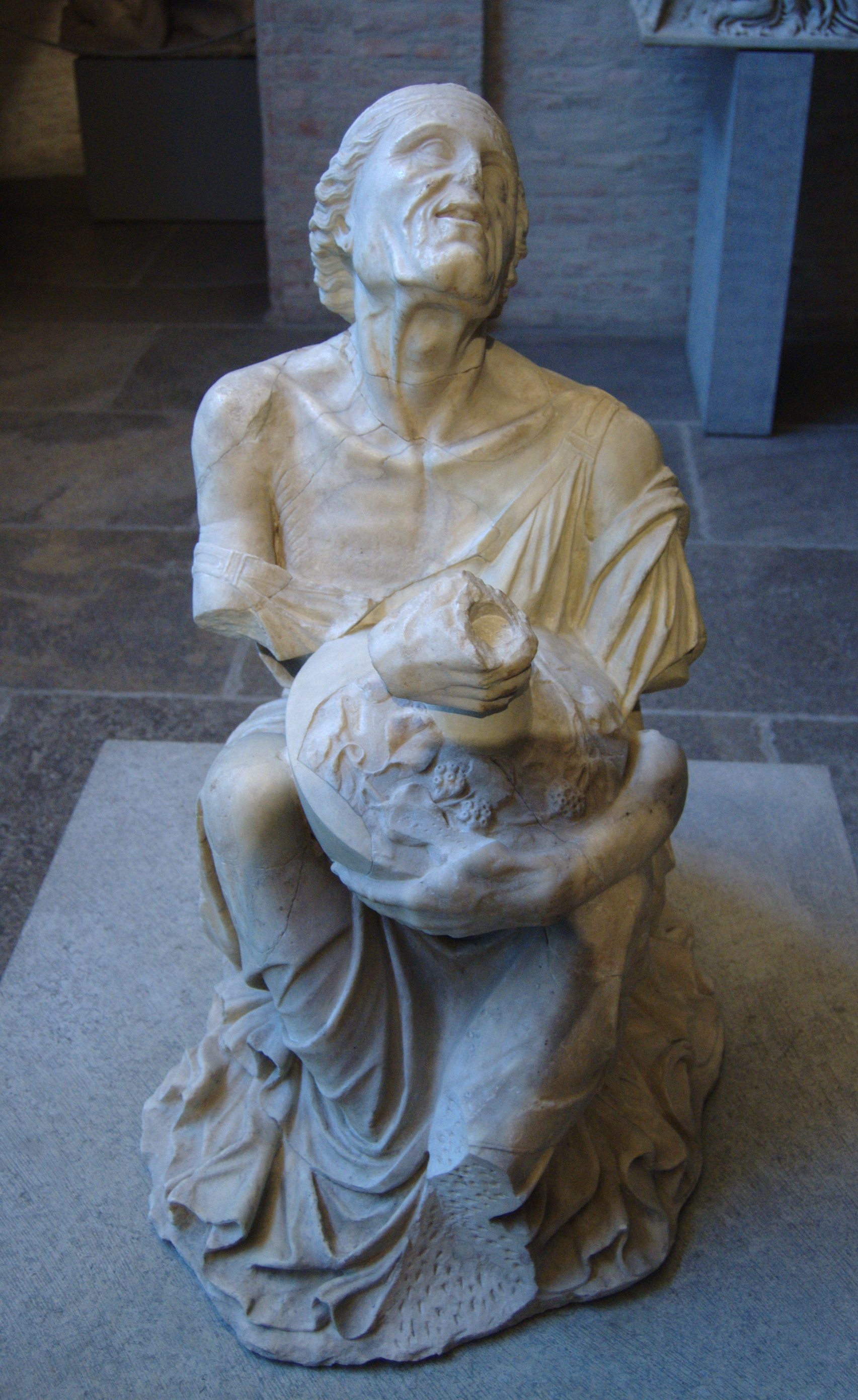 Drunken old woman clutching a big lagynos (Hellenistic wine jug) decorated with reliefs. Marble, Roman copy after a Greek original of the 2nd century BC (200–180). According to Roman tradition, this famous statue type was credited to an artist called Myron.